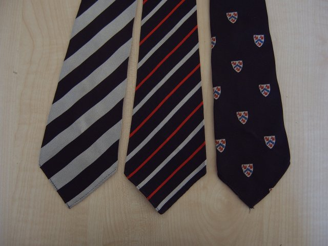 Three Nottingham High School ties: Junior School, Main School house tie (Whites house), Lovell Order.